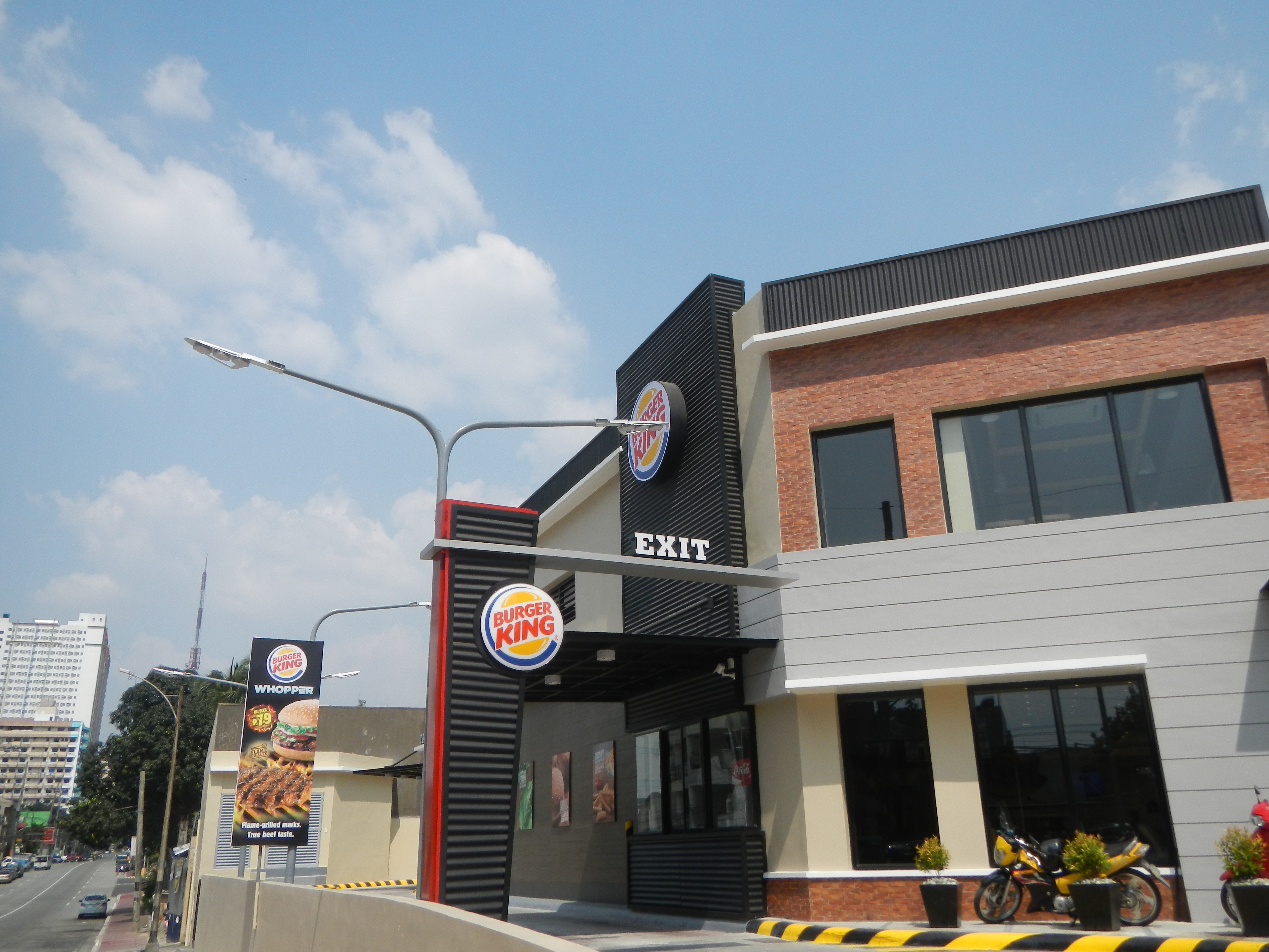 Burger King restaurants in Quezon City, Timog and Panay Avenues, corner Barangay South Triangle, Quezon City, District 4 Barangays of Quezon City South Triangle, Paligsahan or Roces District 1, Laging Handa District 4 or Boy Scout Area, in Mother Ignacia Avenue, Sgt. Esguerra Avenue, beside Camelot Hotel, in Timog Avenue, Timog Avenue, and Panay Avenue, Torre Venezia Hotel-Suites, Saint Paul the Apostle Parish Church, Blessed on January 26,1991, Camelot Hotel, Quezon_City).